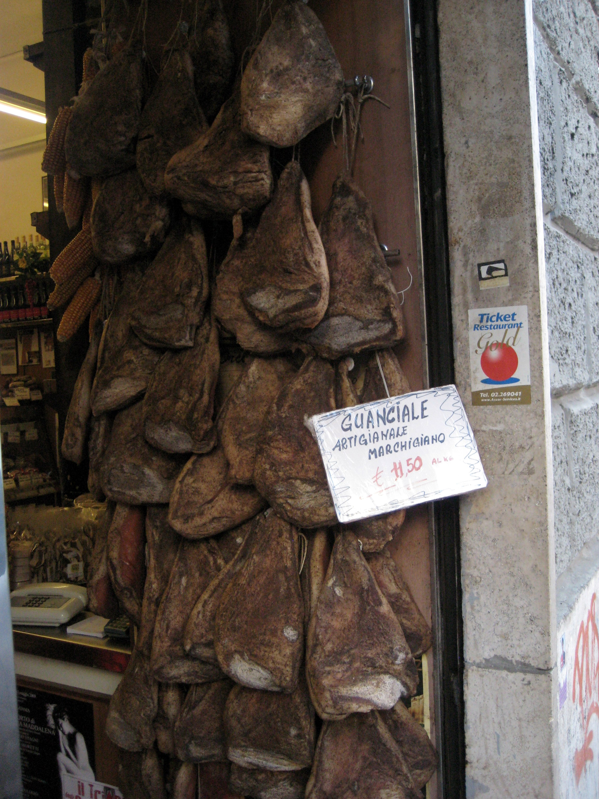 Guanciale just hangin' in the doorway of a little food shop in Trastevere, Rome - Italy.